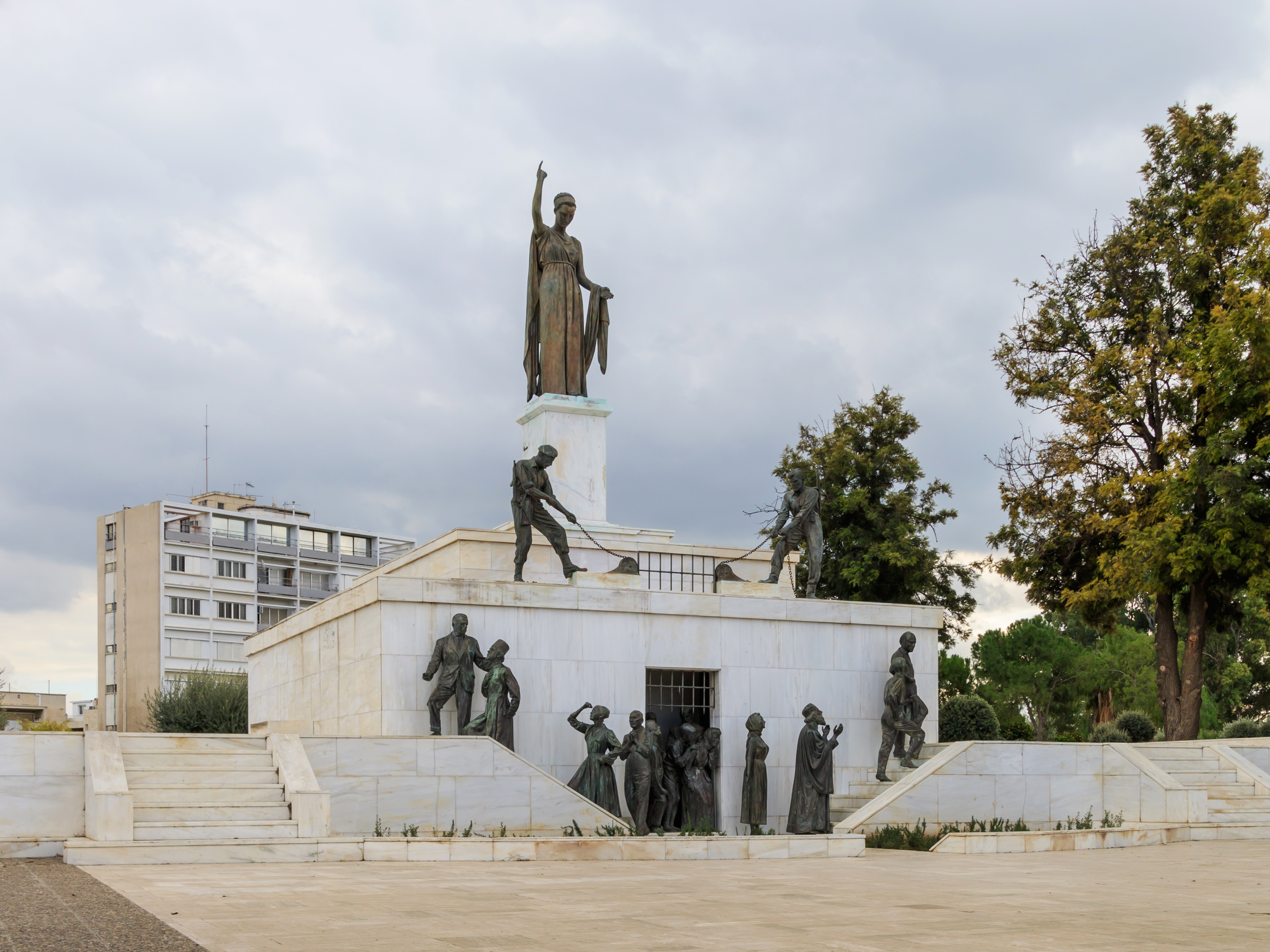 Liberty Monument in Nicosia, Cyprus